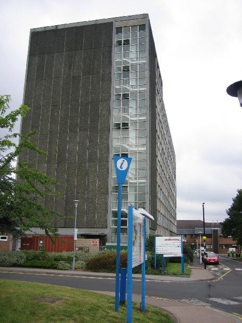 Good Hope Hospital. One of the many blocks which make up this large hospital.